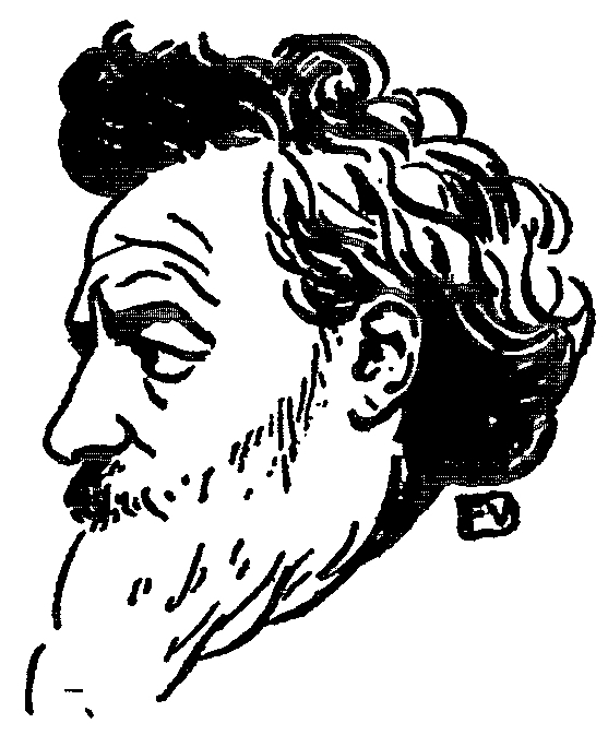 British designer and writer William Morris (1834-1896) by Félix Valloton (1865-1925)